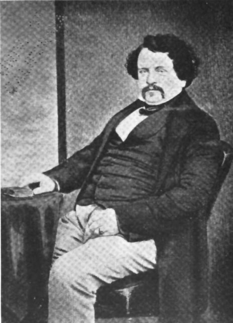 Portrait of William Aspdin, page xviii of Volume 1 of Radford's cyclopedia of cement construction, 1910. The accompanying text reads: "WILLIAM ASPDIN. A pioneer in the manufacture of Portland cement, who first developed the industry to a substantial commercial footing in England. He was a son of Joseph Aspdin, of Leeds, original inventor and patentee of Portland cement, but died at Holstein in what is now a part of the German Empire, during the Schleswig-Holstein War, in 1864, aged about 57 years. Portrait reproduced from an old tintype. See Appendix, Volume IV." This is a relatively low-resolution image, from a scanned online edition of a public domain book at Hathi Trust: If I can get access to an original copy, for scanning purposes, I will upload a better one. At this time, this is the best available.